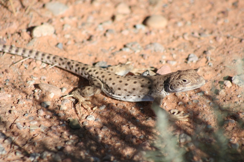 Gambelia wislizenii at Arches National Park